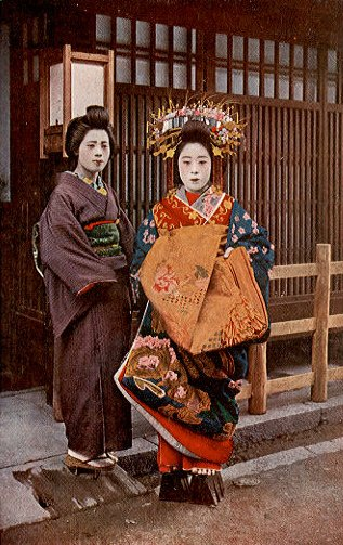 Tayū, or a high-class oiran